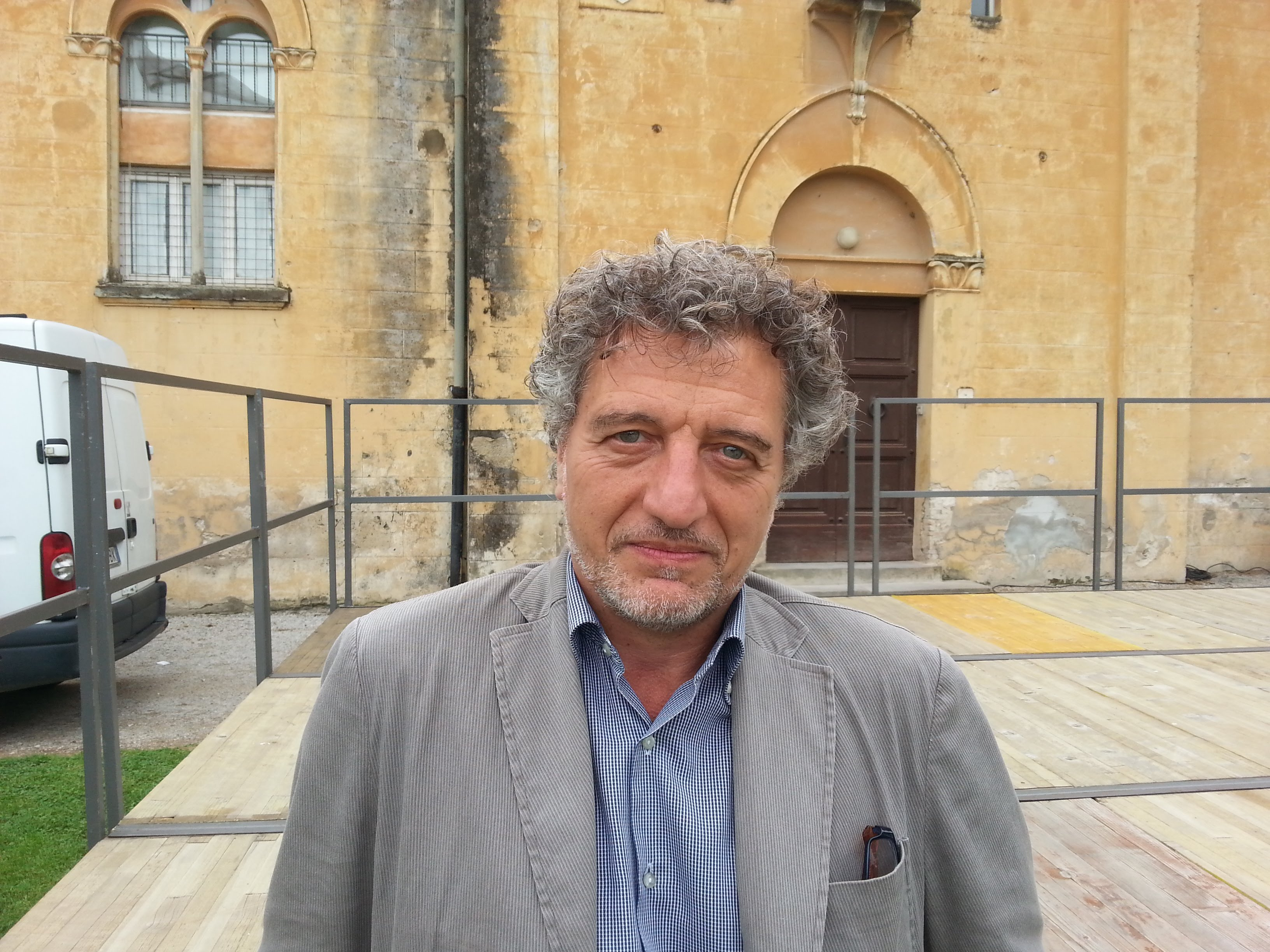 Michele Gambino, italian journalist